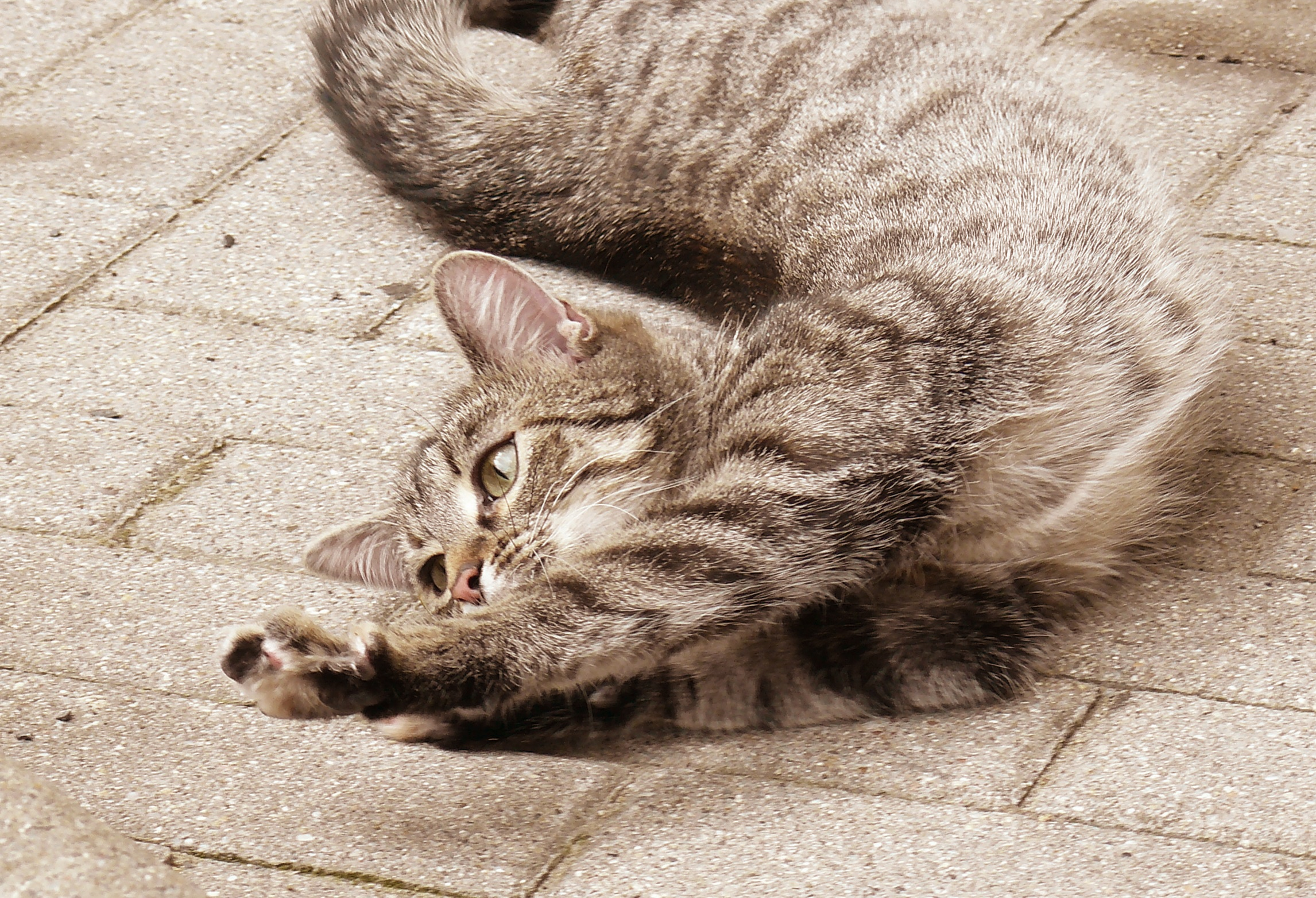 Young female cat stretching herself, with a remarkably curved backbone.